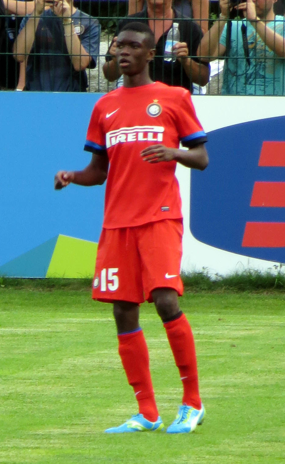 Ibrahima Mbaye, player of Inter Milan